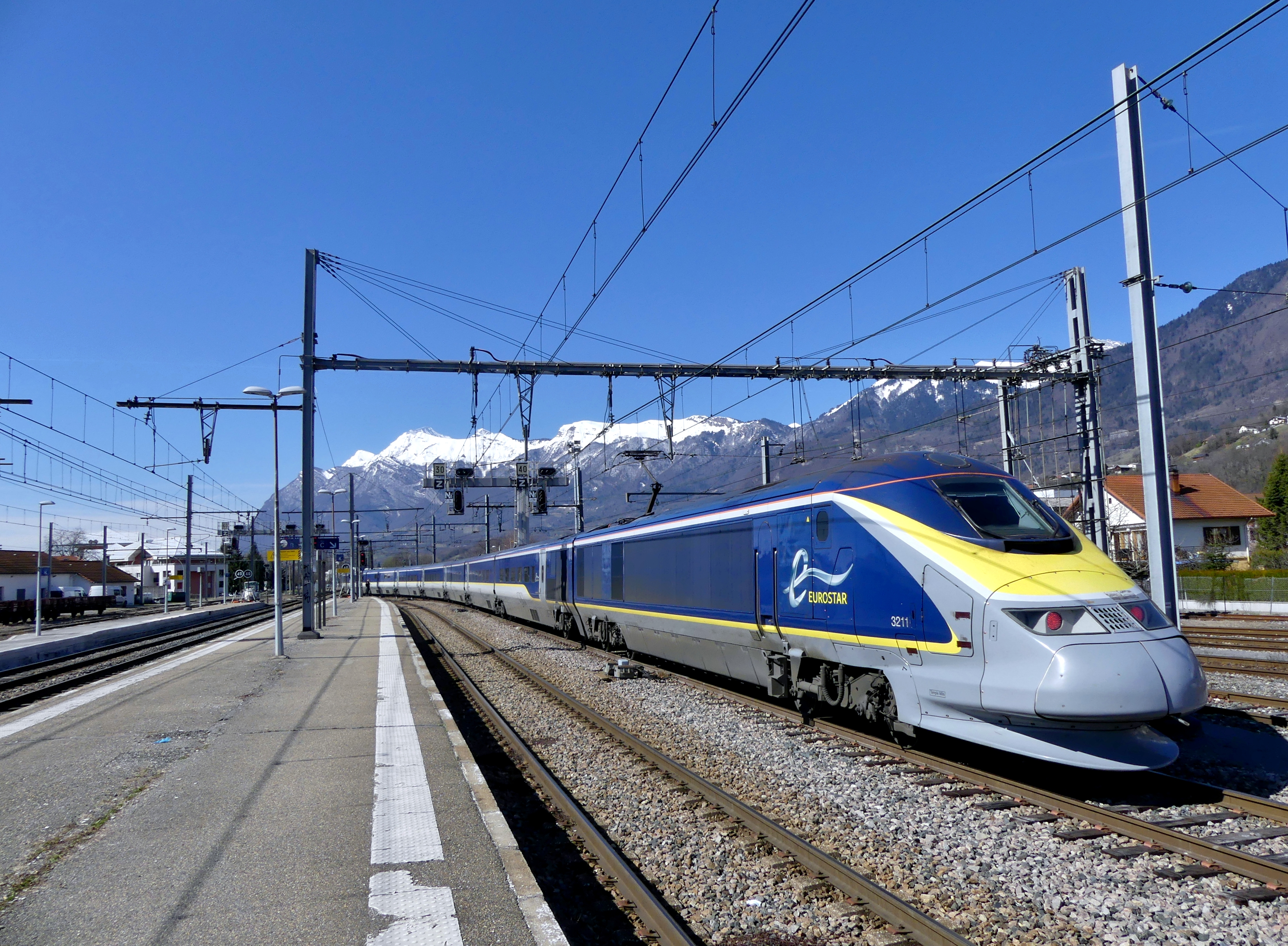 Sight of a Eurostar high speed train, on winter service n°9095 from Bourg-Saint-Maurice (in the French Alps) to London, leaving Albertville in Savoie.